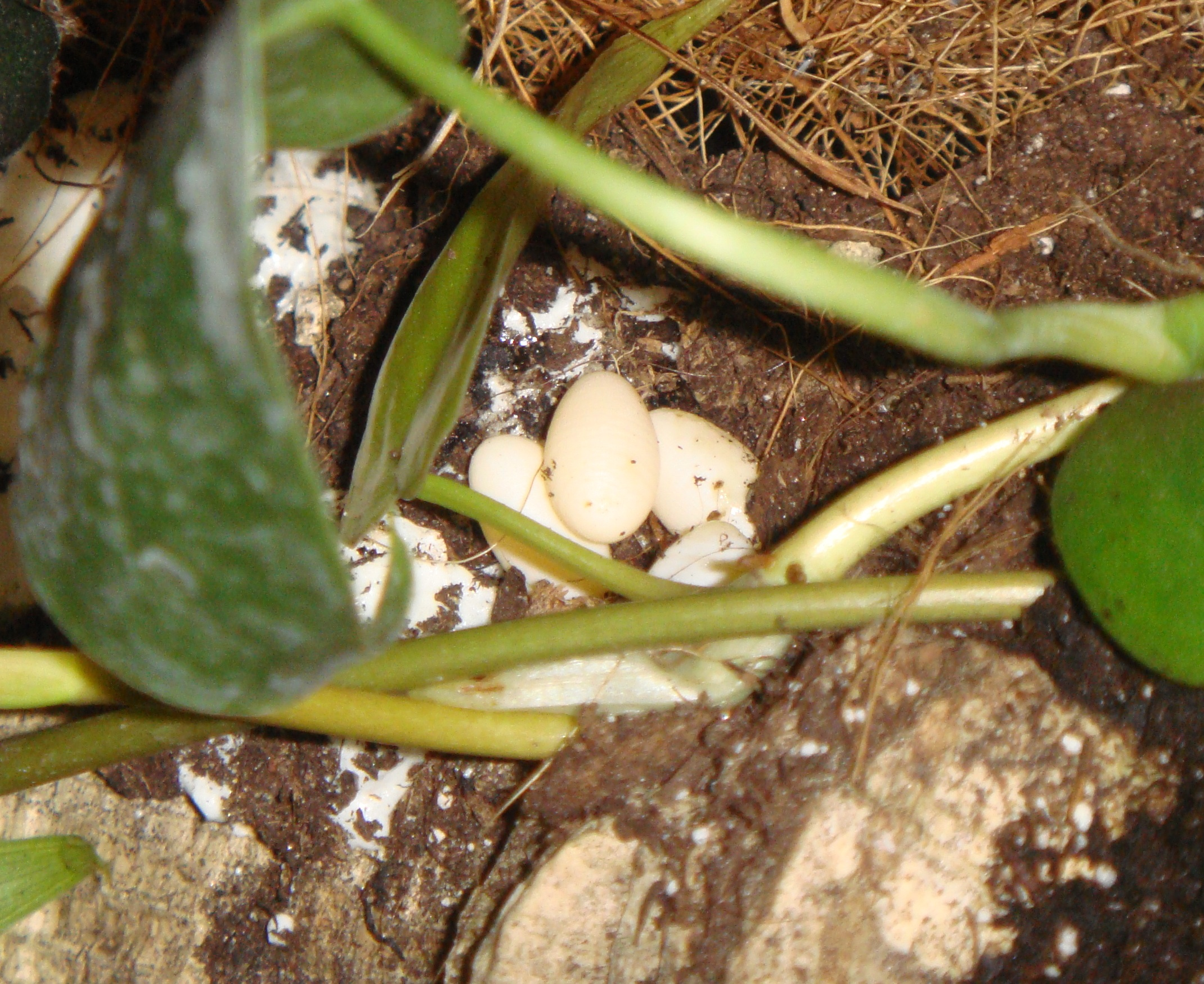 4 eggs of a Rhampholeon temporalis, just layed.